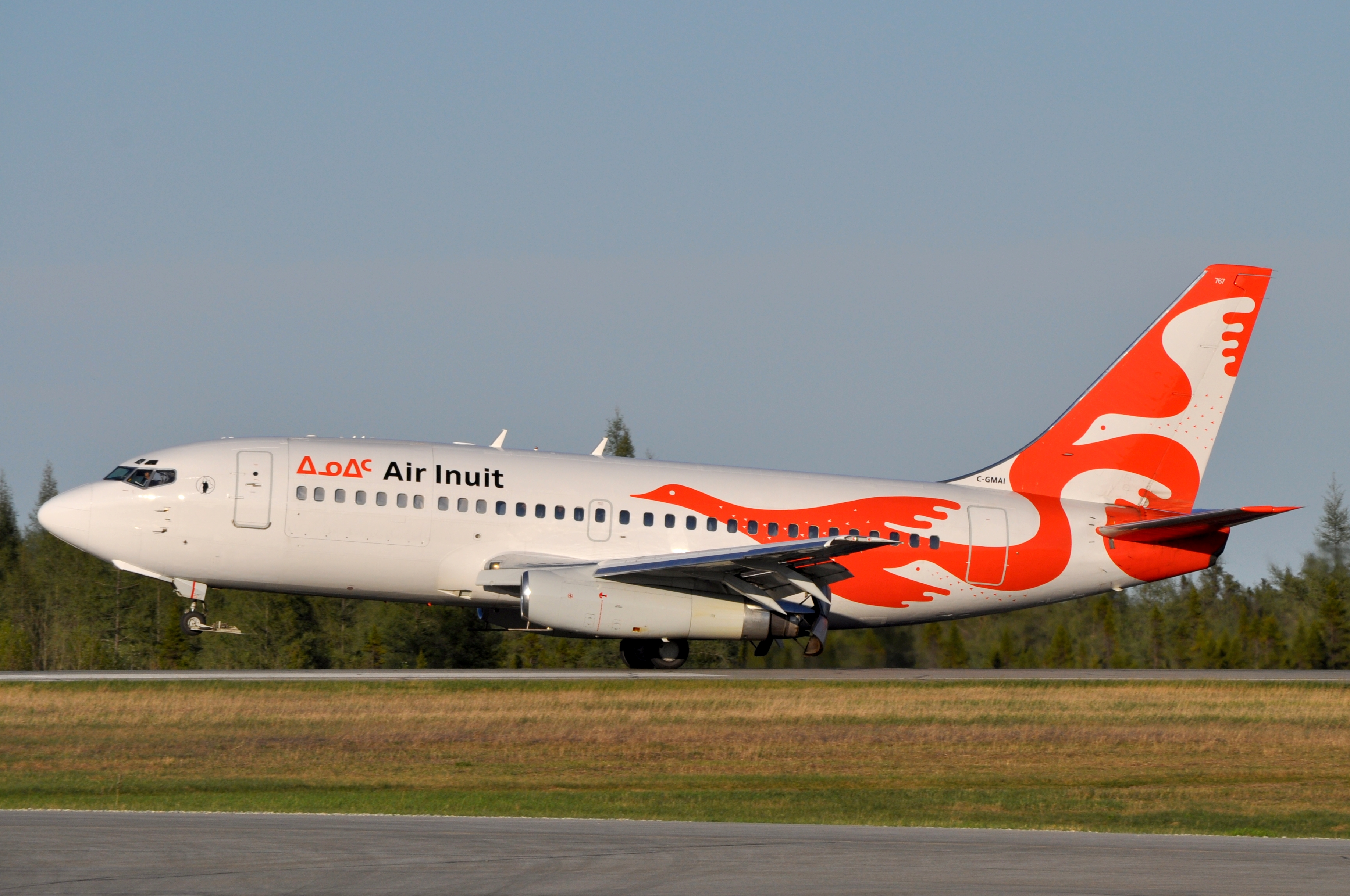 2012-05-22 "Inuit 353" arrival from Kattiniq/Donaldson (via Kuujjuaq).